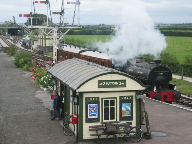 Photograph taken at Quainton Road station, 2 September 2006 A query has been raised about the "authorship" of this picture. All I can say is that I took it on the date stated as part of the centenary celebrations of the birth of John Betjeman. Hope this helps. IXIA (talk) 21:26, 24 July 2010 (UTC)